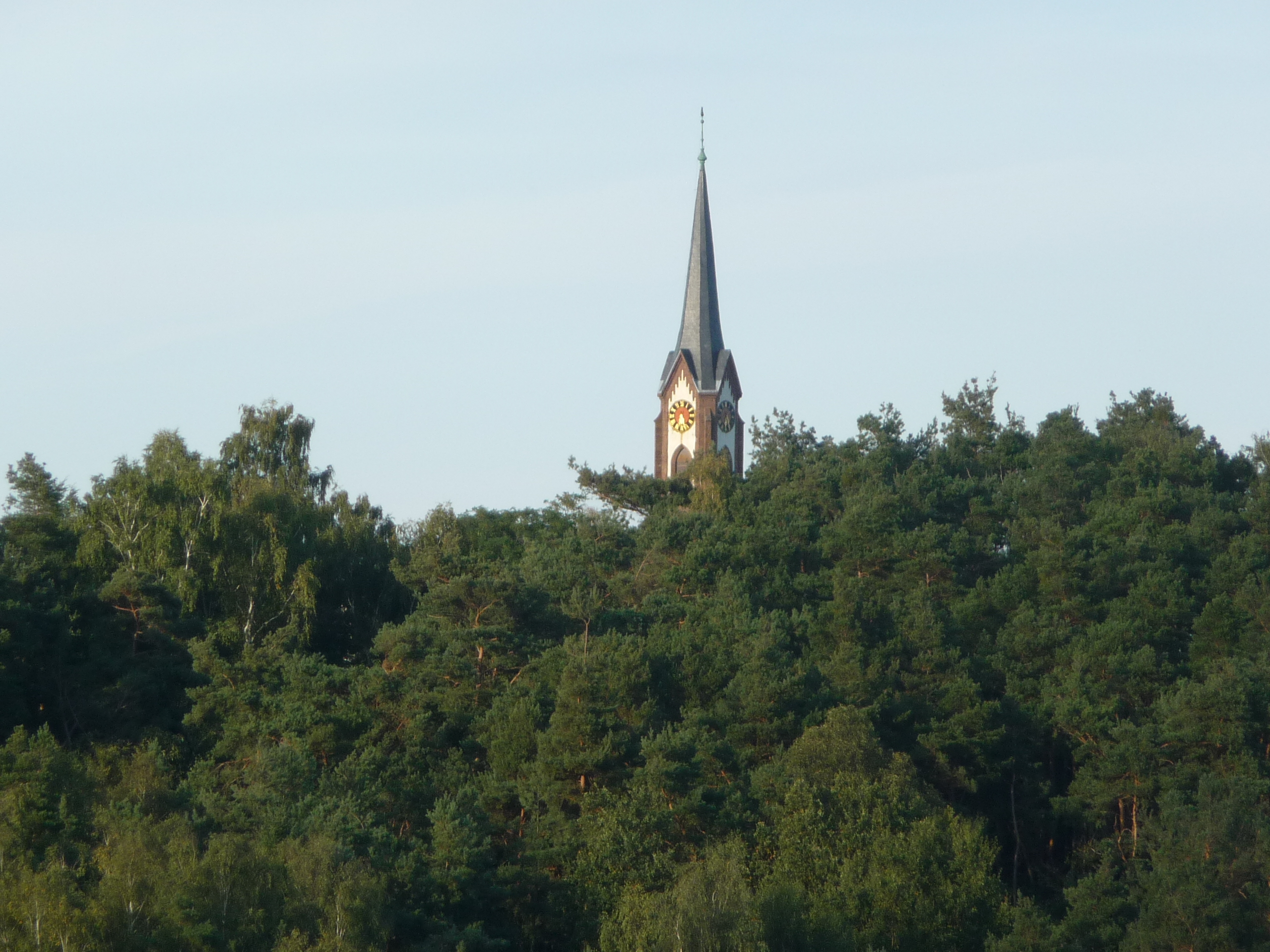 Carlsberg